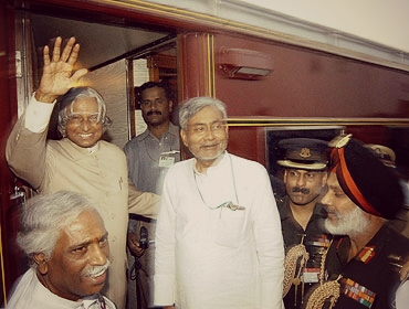 At Harnaut station At_Harnaut_station, Harnaut, Bihar, India